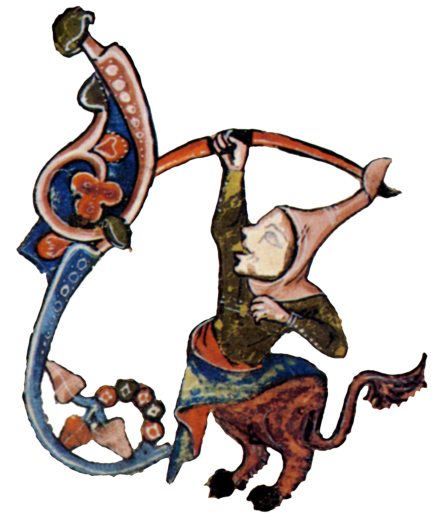 Drollery (margin-creature), Jester Centaur